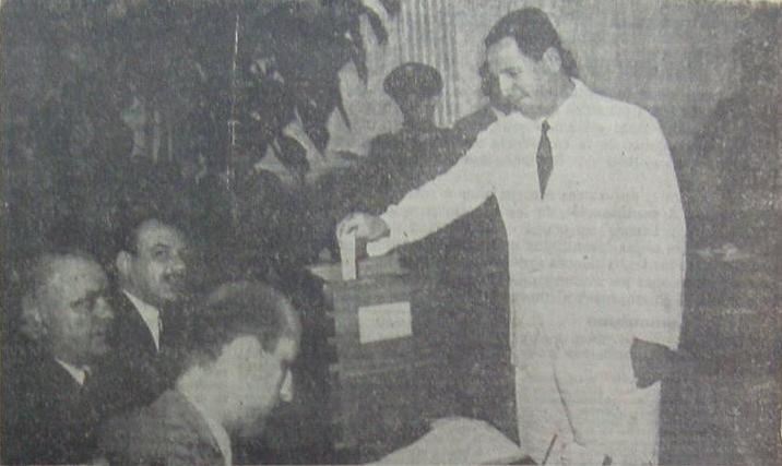 Colonel Juan Domingo Perón casts his vote in the 4th polling table of the 164th circuit, located at 2961 Juncal Street in Buenos Aires, on February 24th, 1946. He was elected for President, receiving 56% of the popular vote.